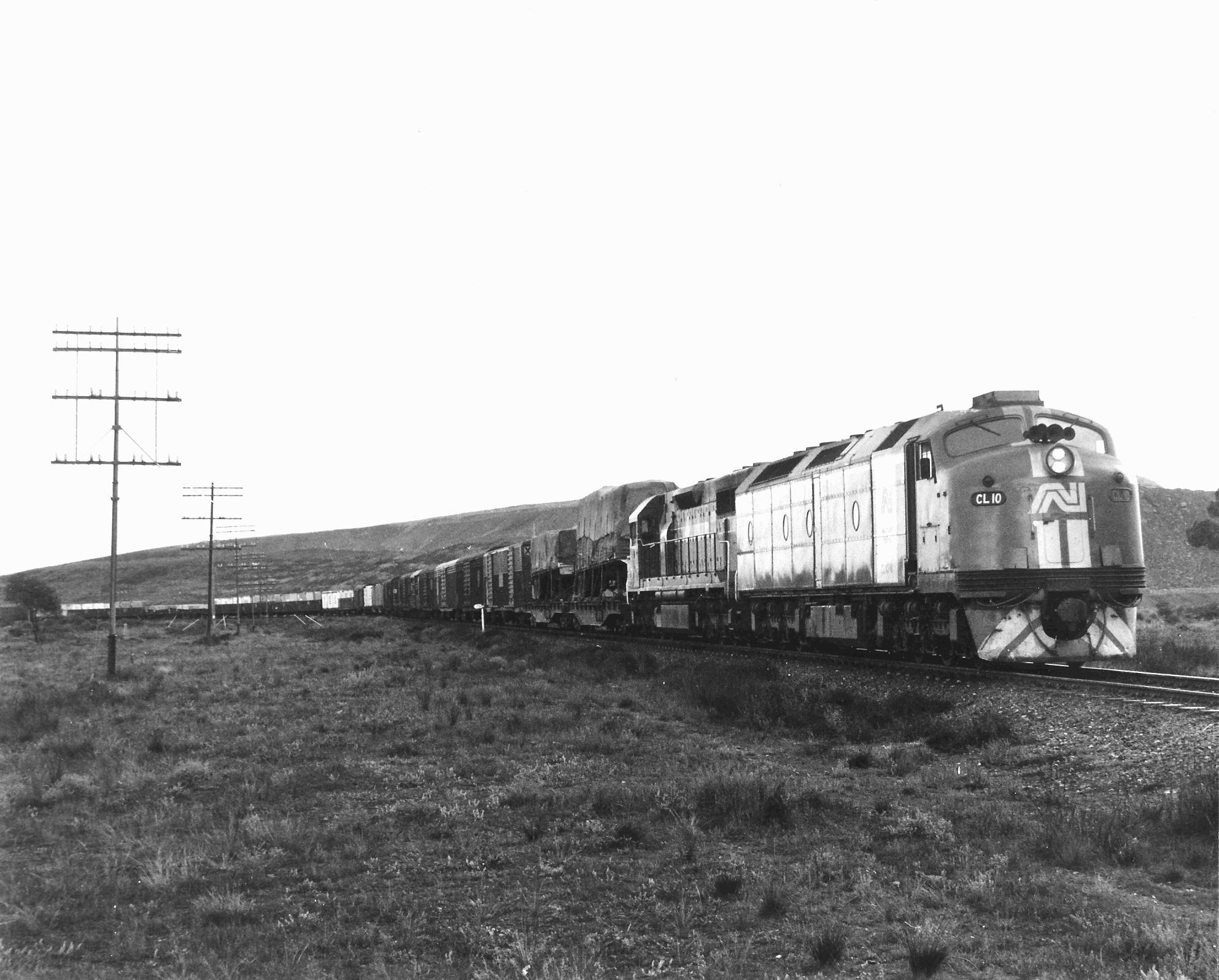 Australian National CL class locomotive no CL10, in AN green and gold livery, leads Western Australian Government Railways (WAGR) L class locomotive no L266 on an eastbound seemingly well-loaded freight train, as it approaches Parkeston, Western Australia, just east of Kalgoorlie on the Trans-Australian Railway. The locomotives had taken over the train at West Kalgoorlie Yard, on the other side of Kalgoorlie.